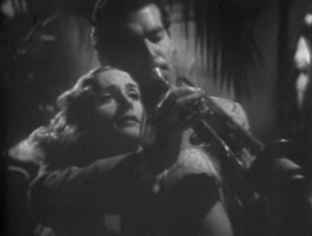 Screenshot of Carole Lombard and Fred MacMurray from the film Swing High, Swing Low